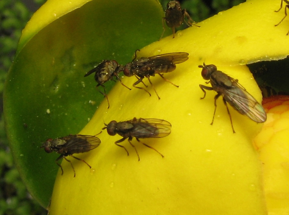 Notiphila flies on water lily. Peace Valley Nature Center, Bucks County, Pennsylvania, USA.